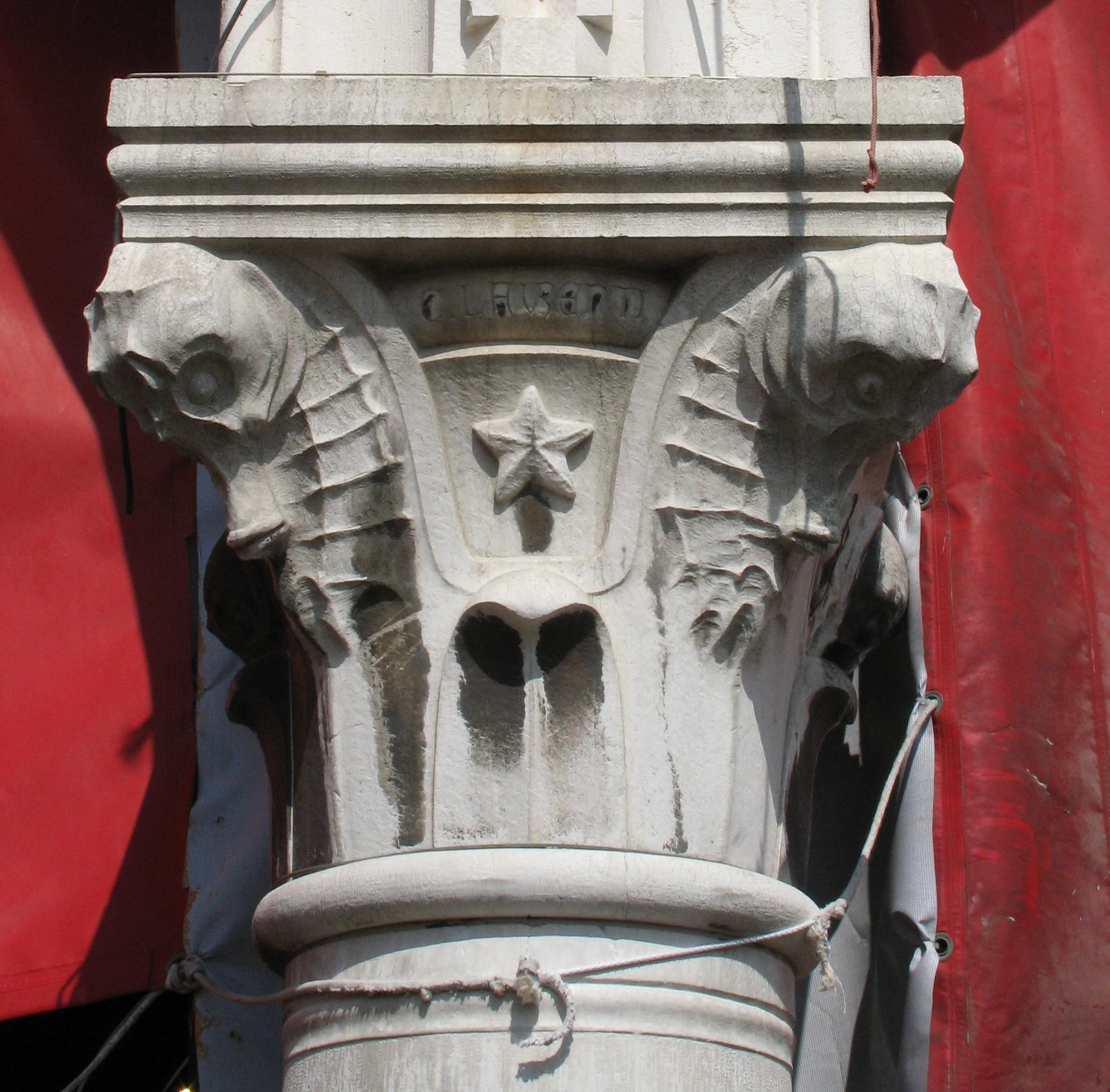 Capital at the fish market in Venice, Italy